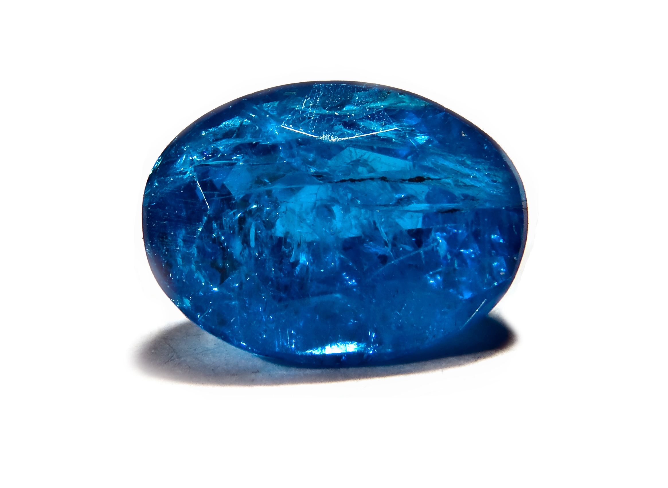 Apatite Cut - Brasil - 0.98Ct